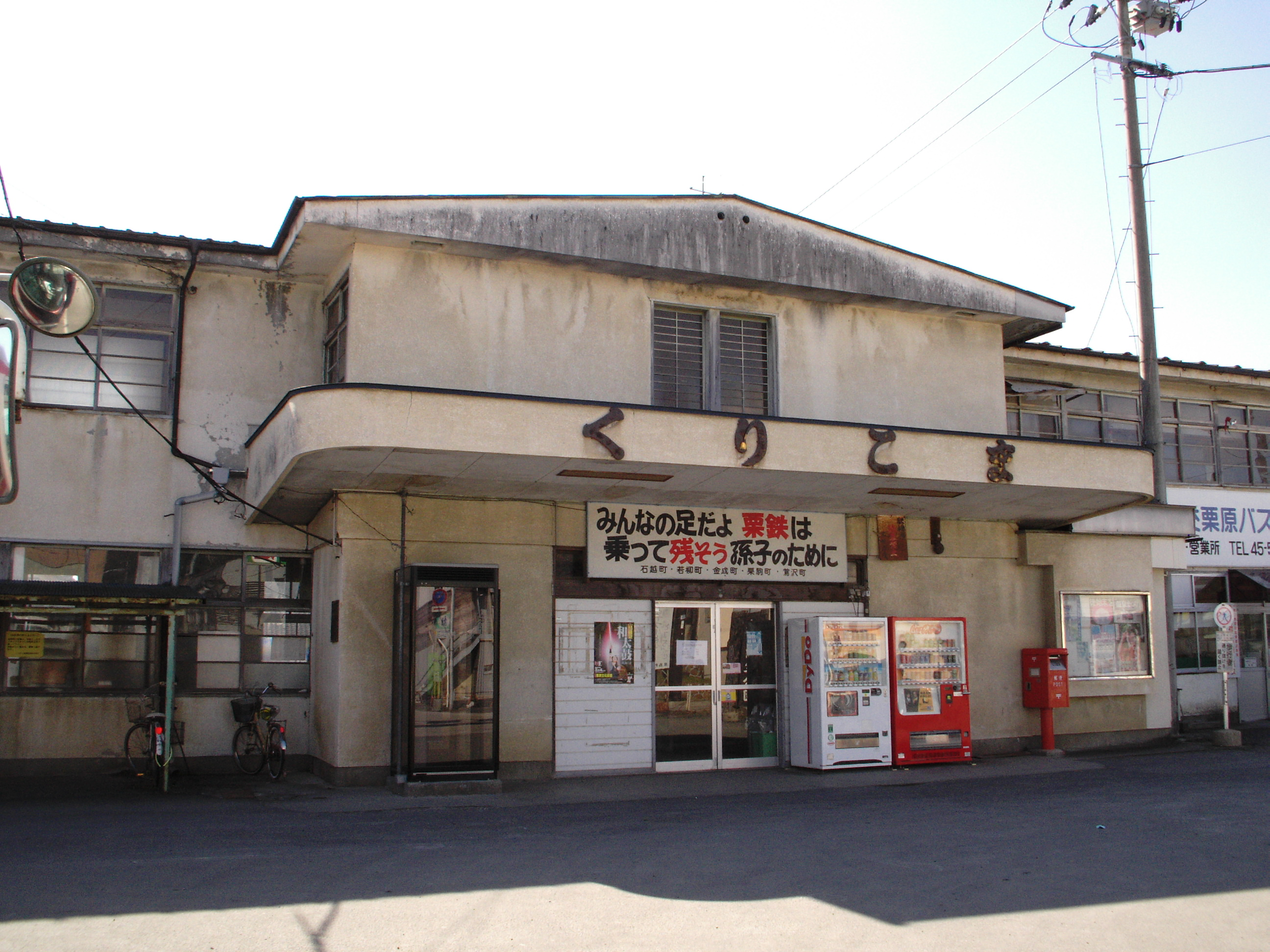 Kurikoma Station